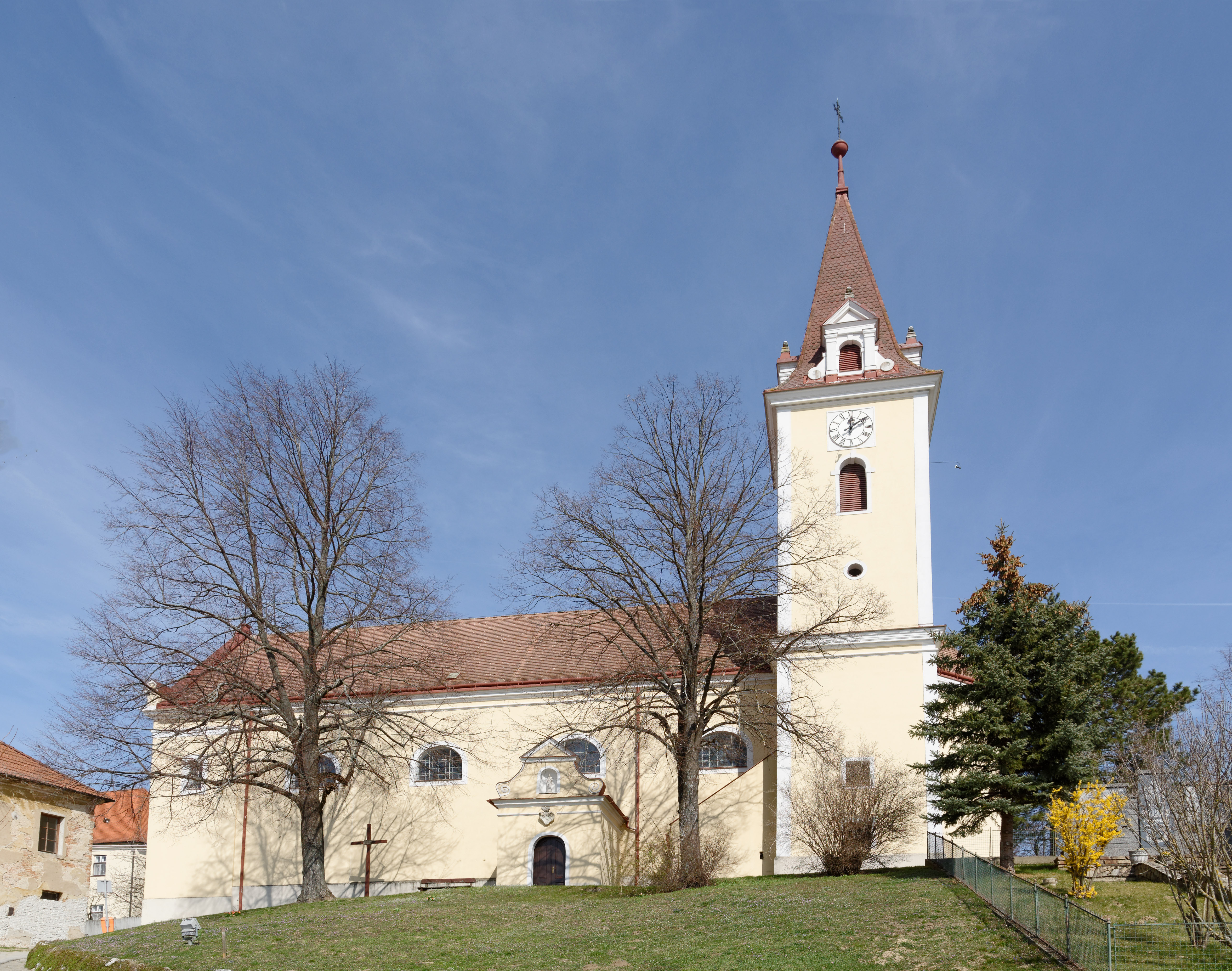 Catholic parish church at Hausbrunn, Lower Austria, Austria